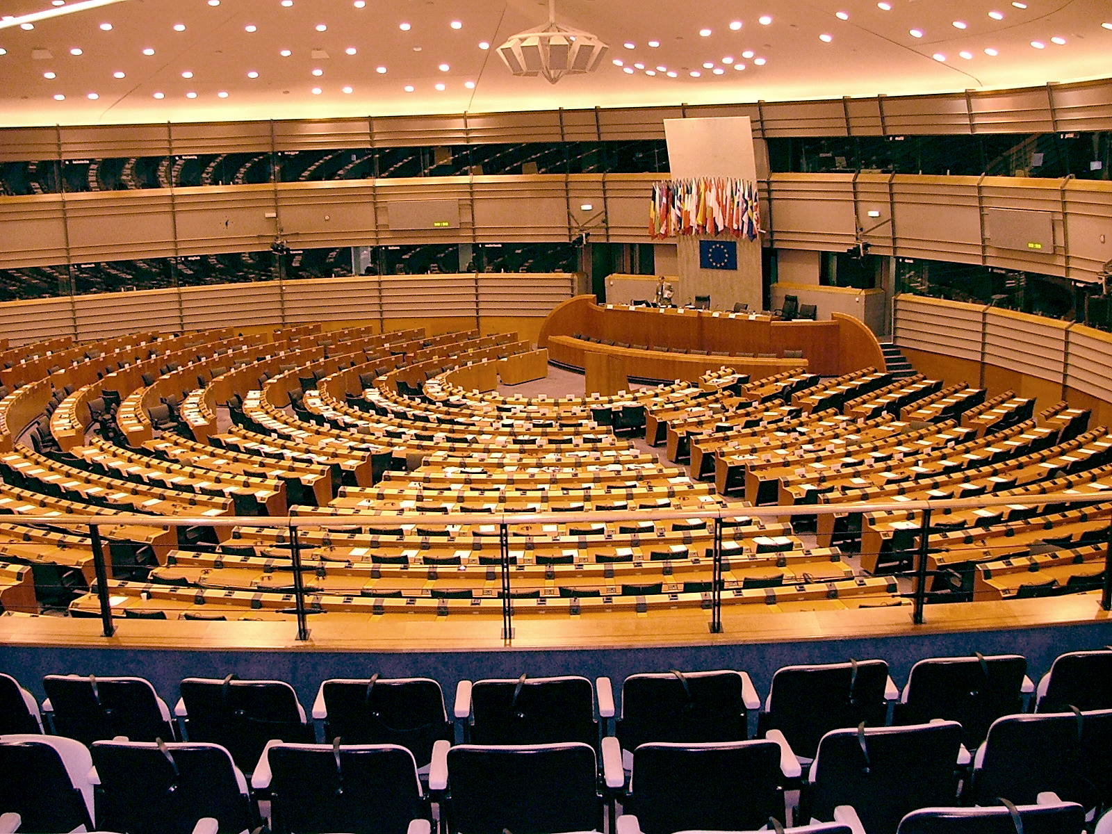 Belgium, Bruxelles - Brussel, European Parliament. The hemicycle empty.